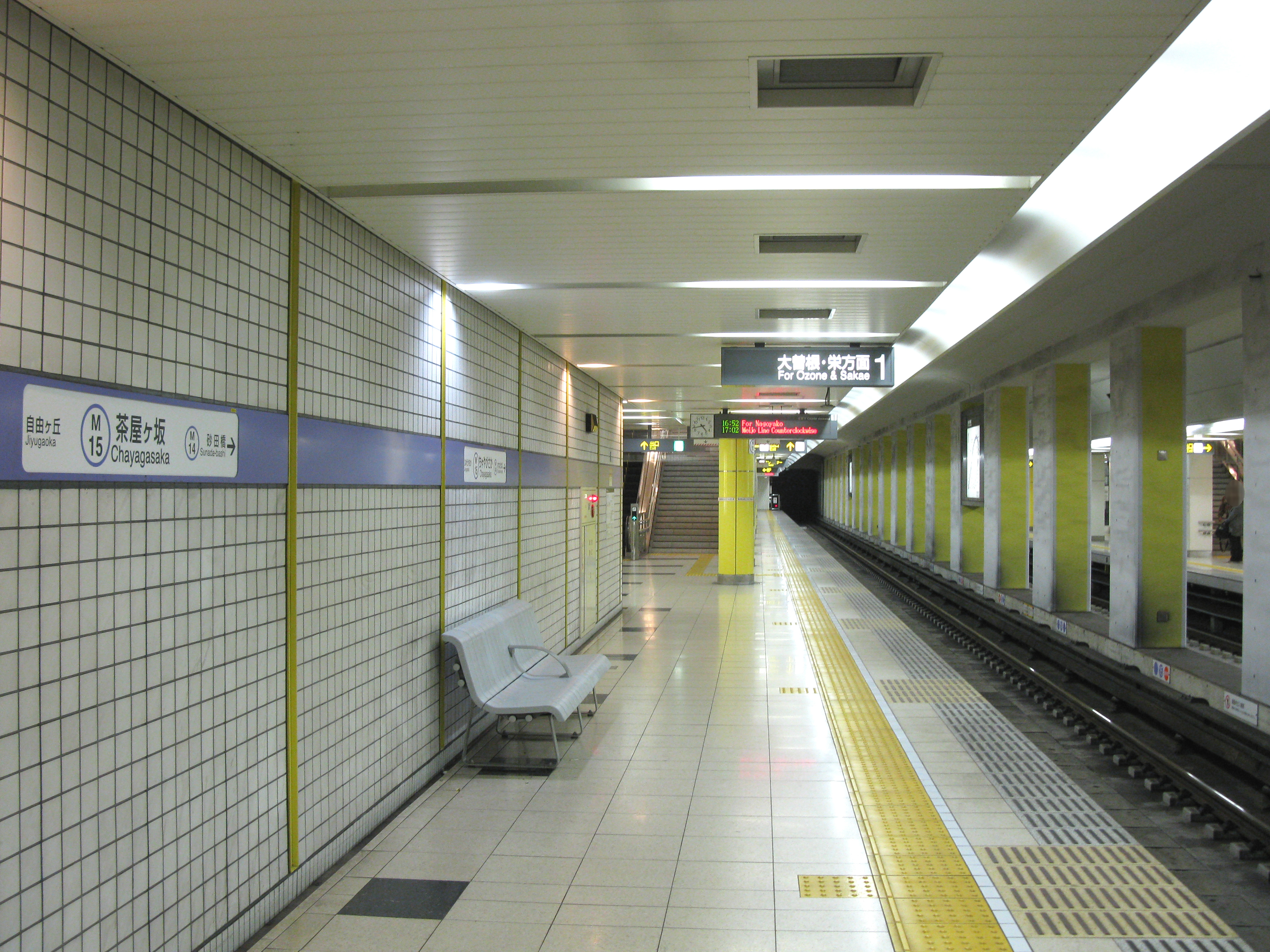 Chayagasaka Station platform (Nagoya Municipal Subway Meijō Line)